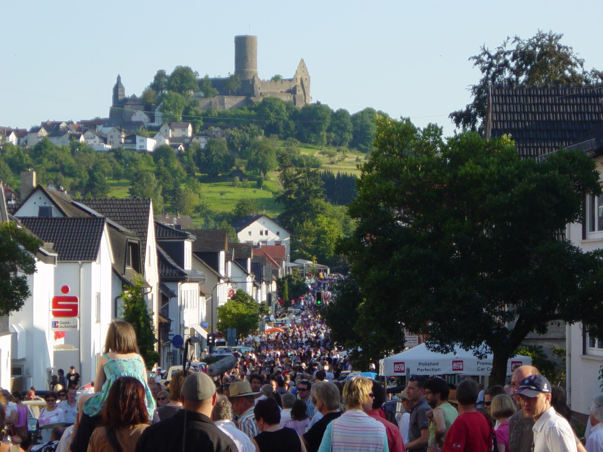 The Golden Oldies Festival 2009 in Wettenberg, Central Hesse, Germany